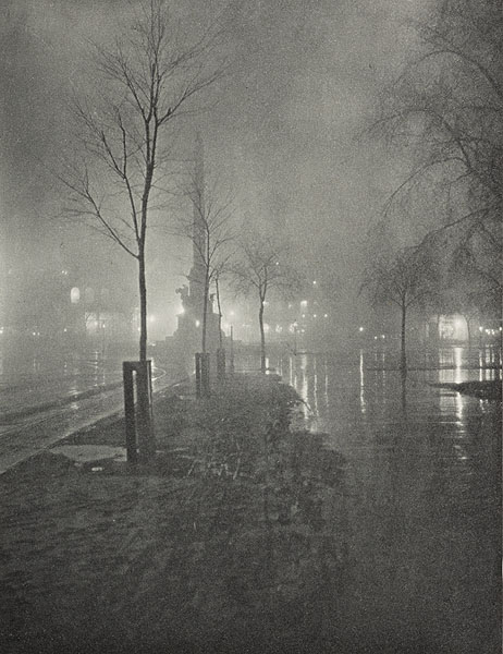 A Wet Night, Columbus Circle